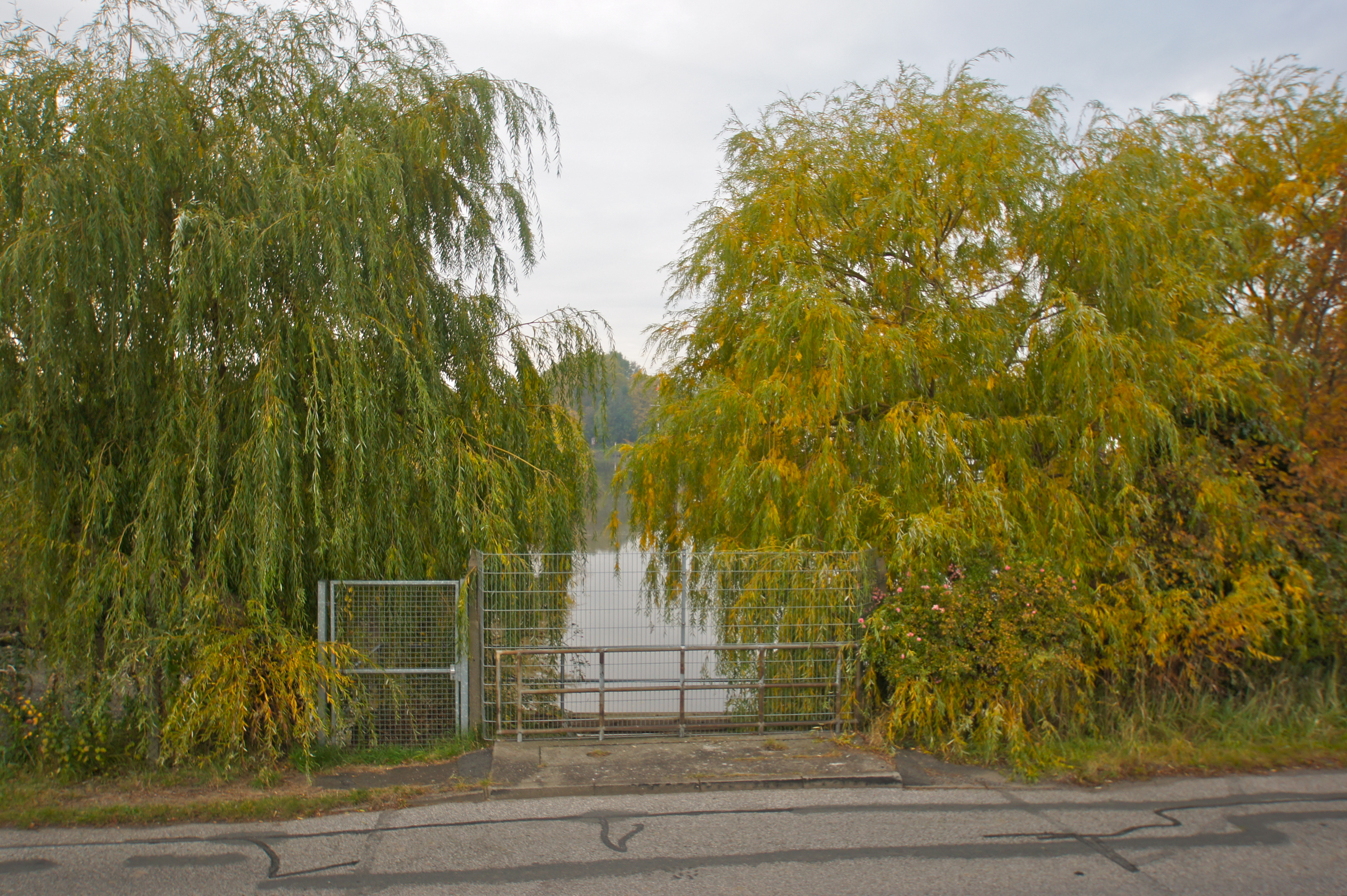 Hamburg (Neuenfelde), Germany: Wettern: Liedenkummer Wettern